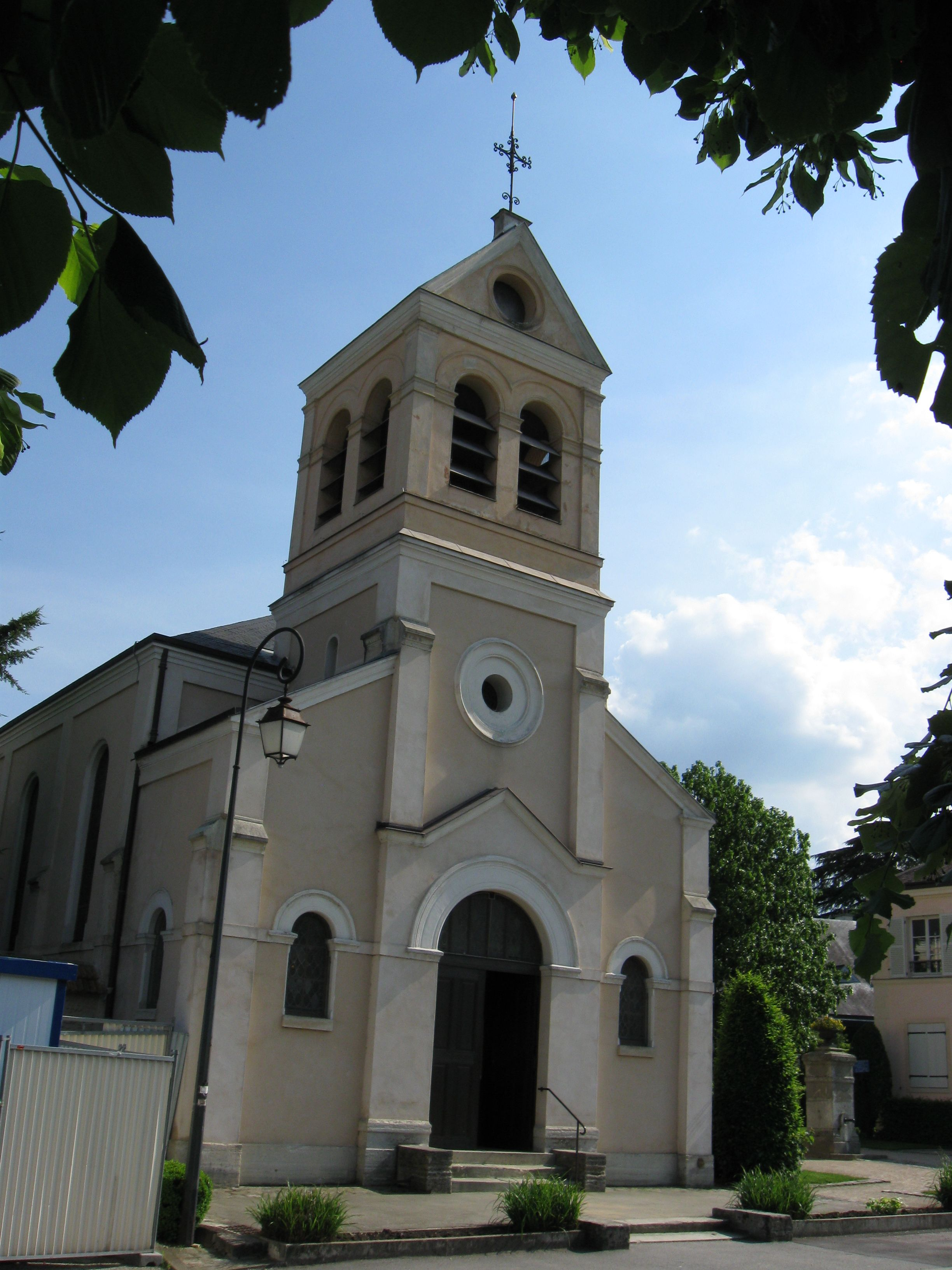 Marnes-la-Coquette catholic church Sainte-Eugénie. ( Hauts-de-Seine department, Île-de-France region).